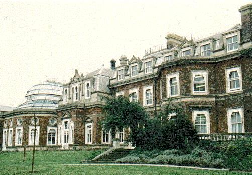 West Face of Admin. Block of West Thames College (formerly Pears House) at London Road, Isleworth.